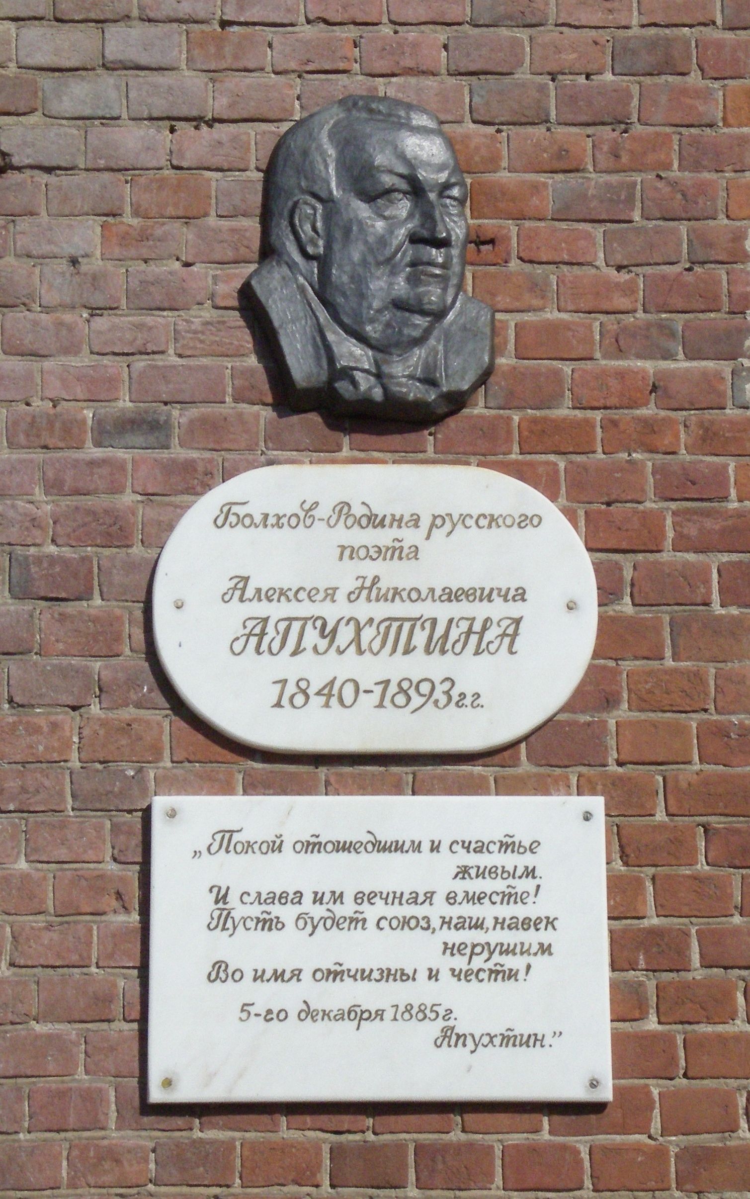 Alexey Apukhtin memorial sign at his home in the town of Bolkhov, Oryol Oblast, Russia